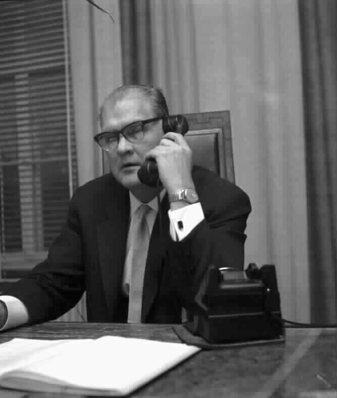 Finnish Social Democratic poltician Erkki Lindfors.